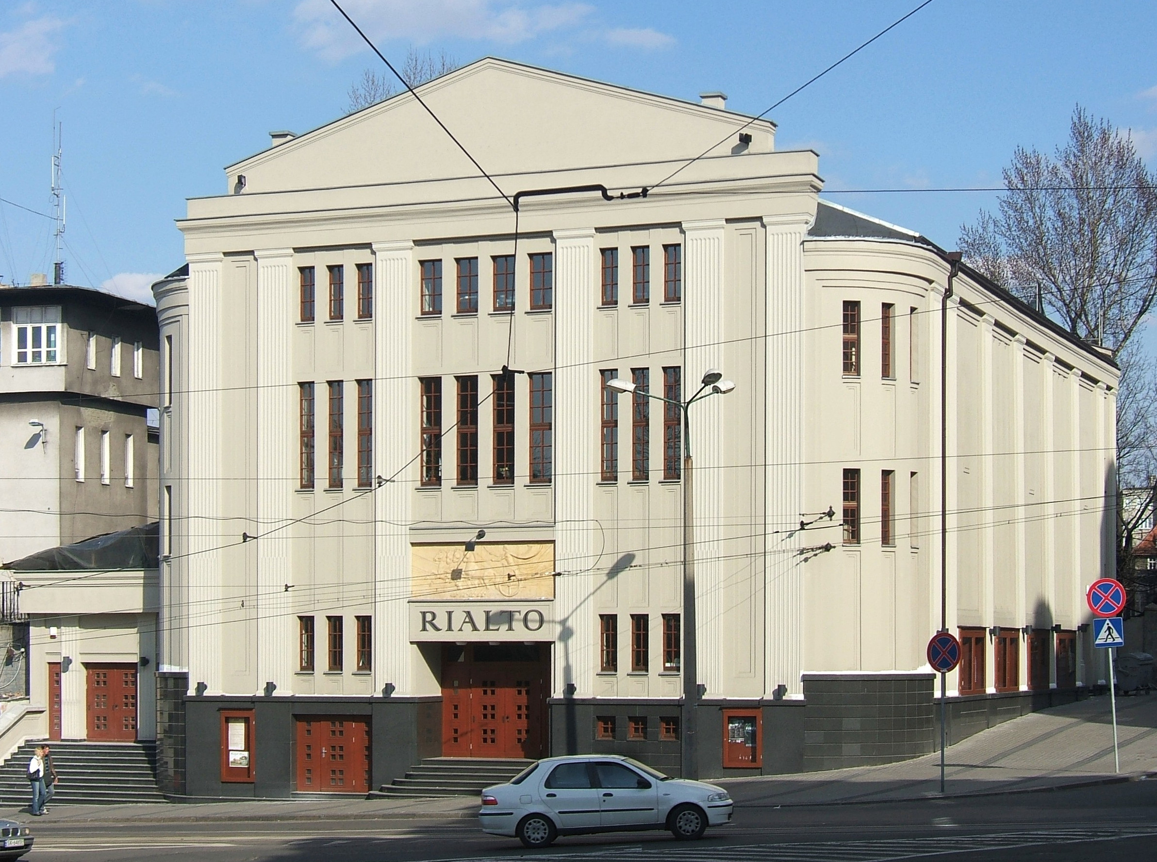 The Kinoteatr Rialto in Katowice (1912).